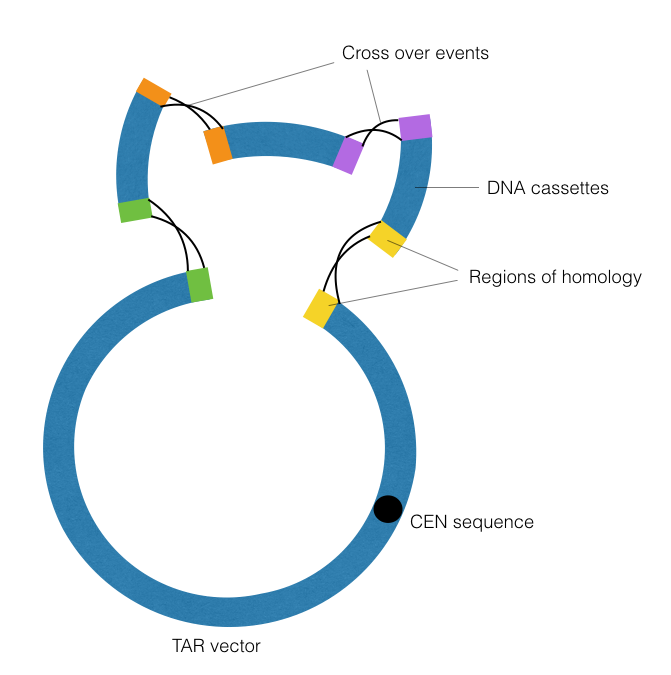 Transformation-Associated Recombination illustrated by Nivin Nasri